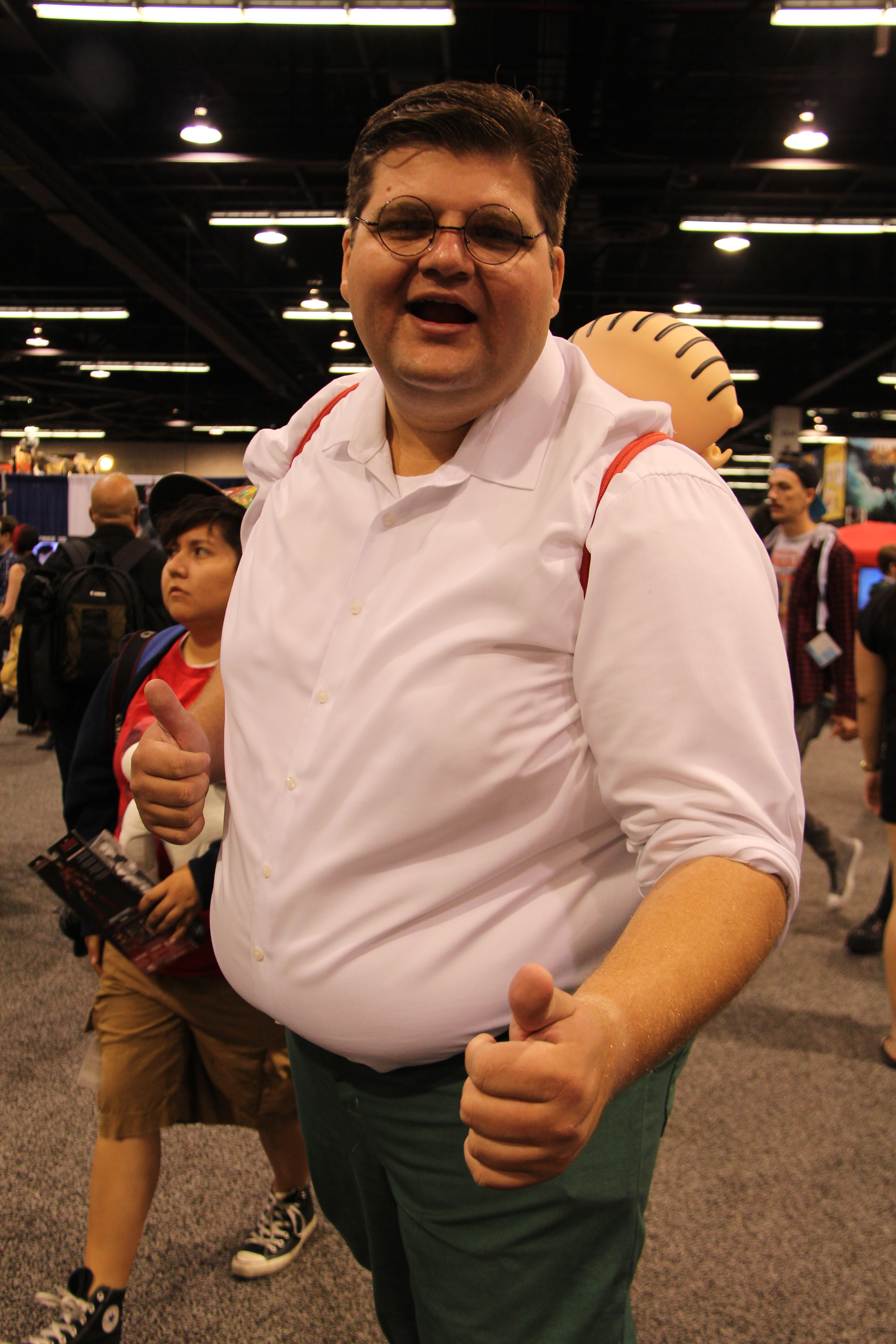 A cosplay of Peter Griffin